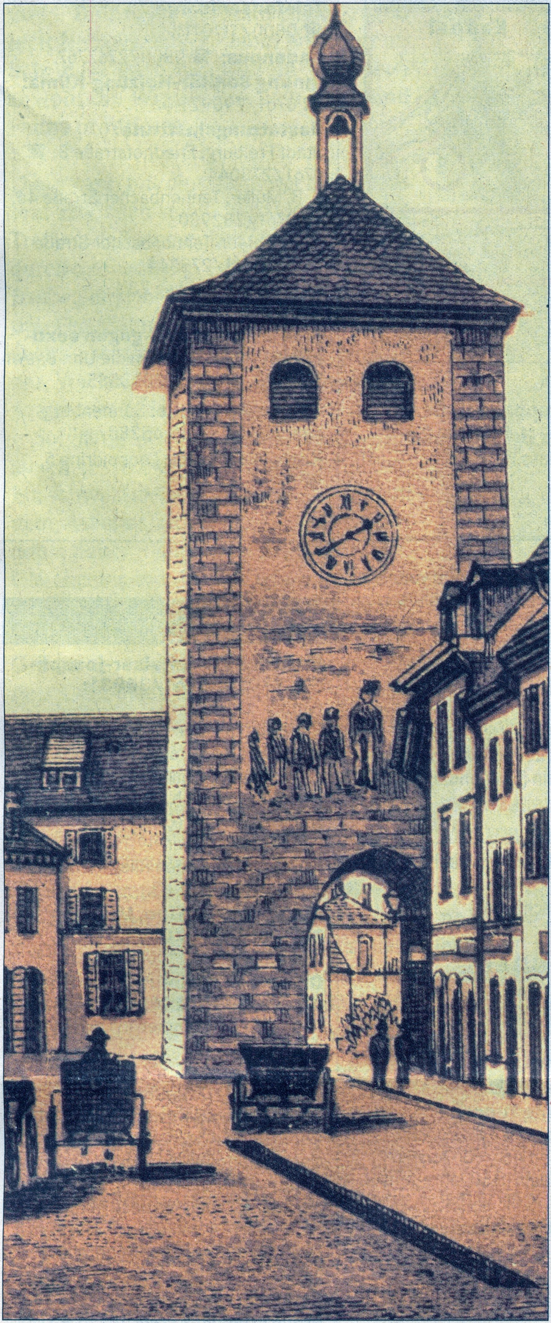 picture of Schwabentor round about 1890